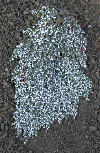 Euphorbia polycarpa syn. Chamaesyce polycarpa at Point Mugu State Park: Serrano canyon trail, Santa Monica Mountains National Recreation Area, California, USA.